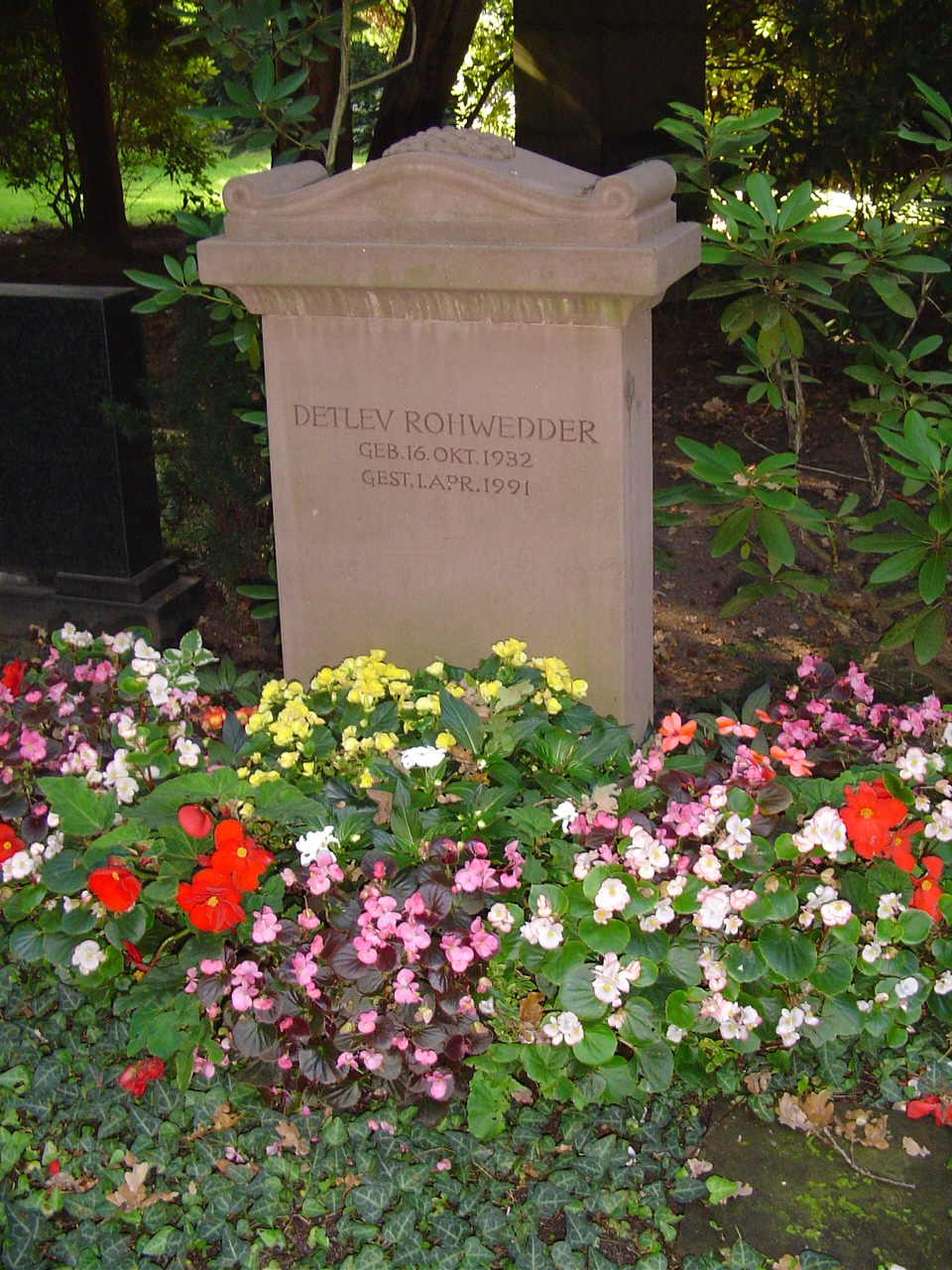 Nordfriedhof cemetery, Düsseldorf, Germany